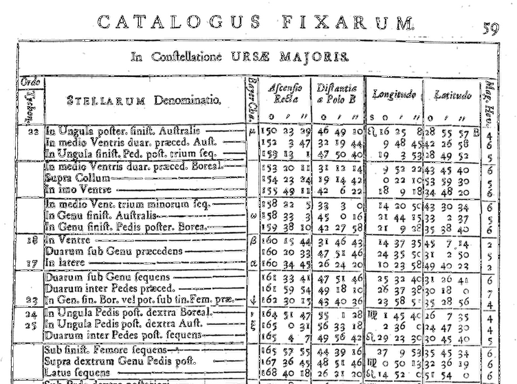 An excerpt from Jonh Flamsteed's postumous catalogue (1725 AD)